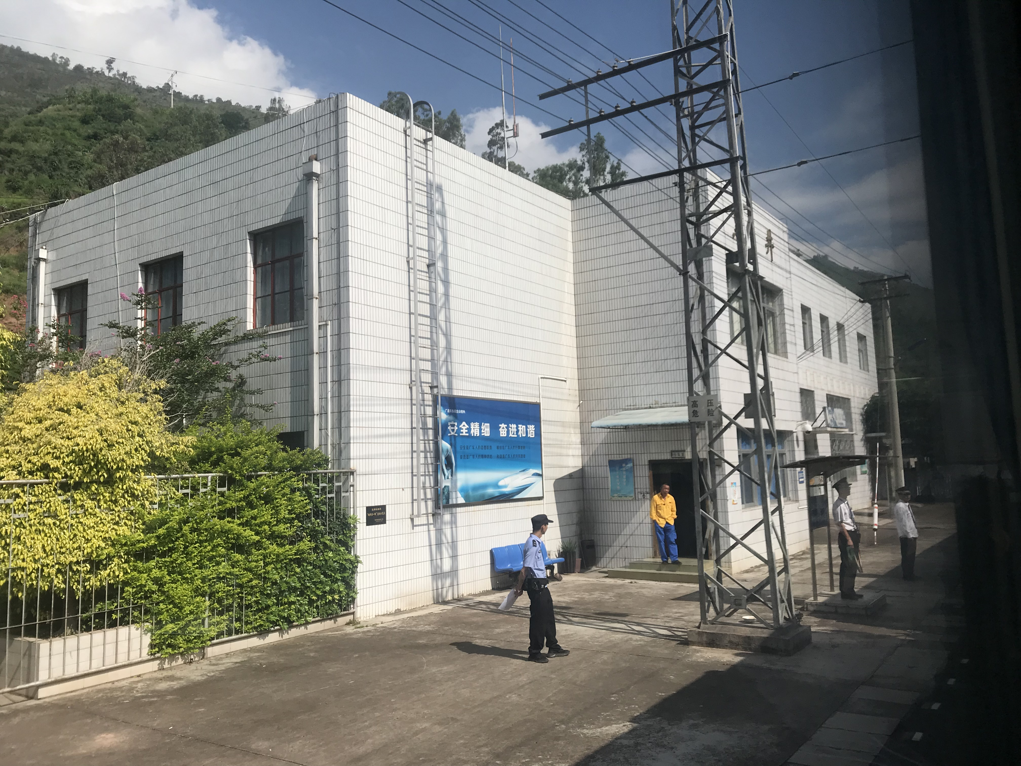 201908 Station Building of Heijing